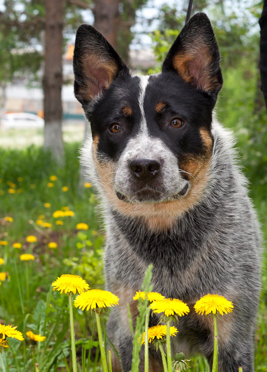 Australian cattle dog from Dingostar kennel